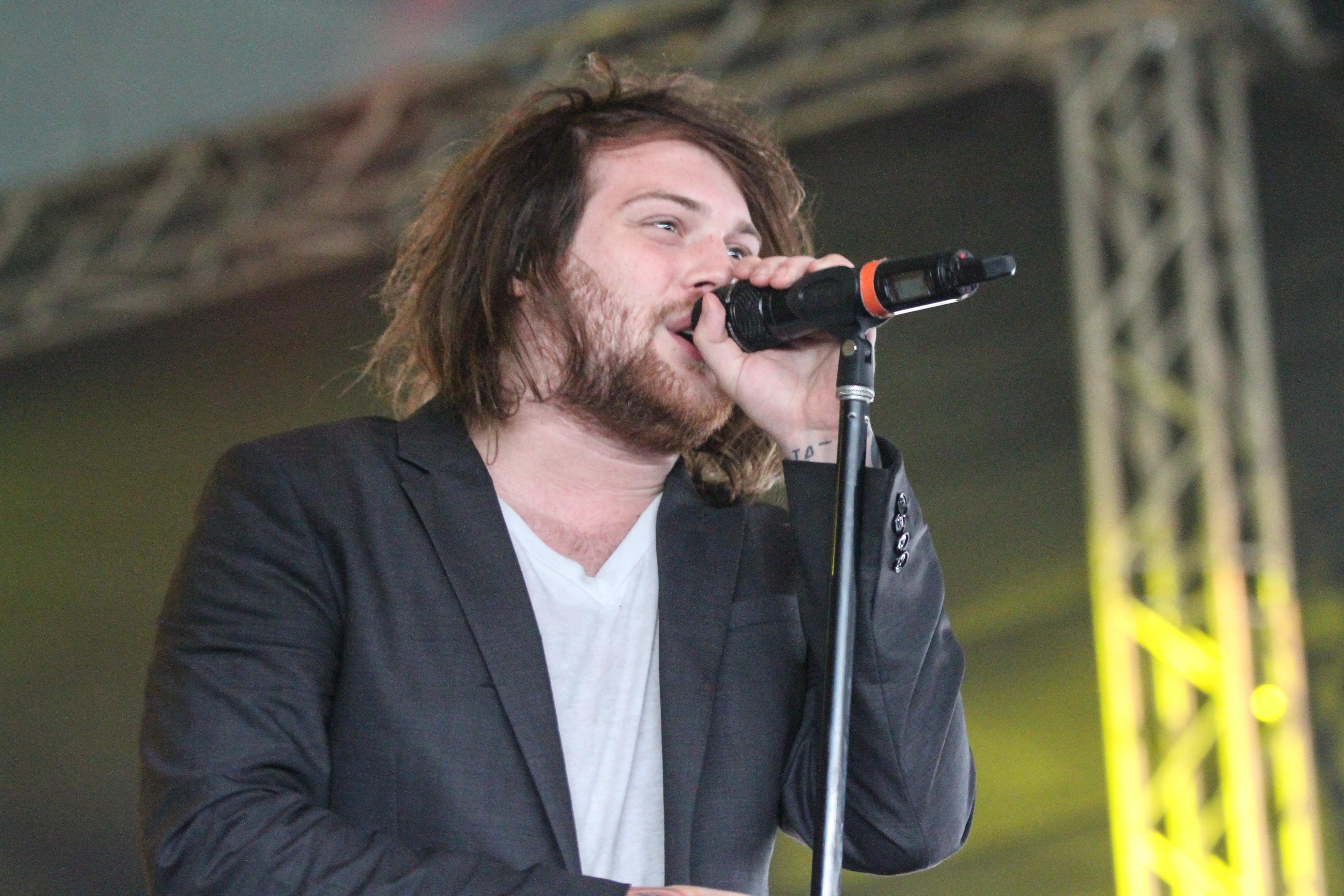 Festivalsommer This photo was created with the support of donations to Wikimedia Deutschland in the context of the CPB project "Festival Summer".